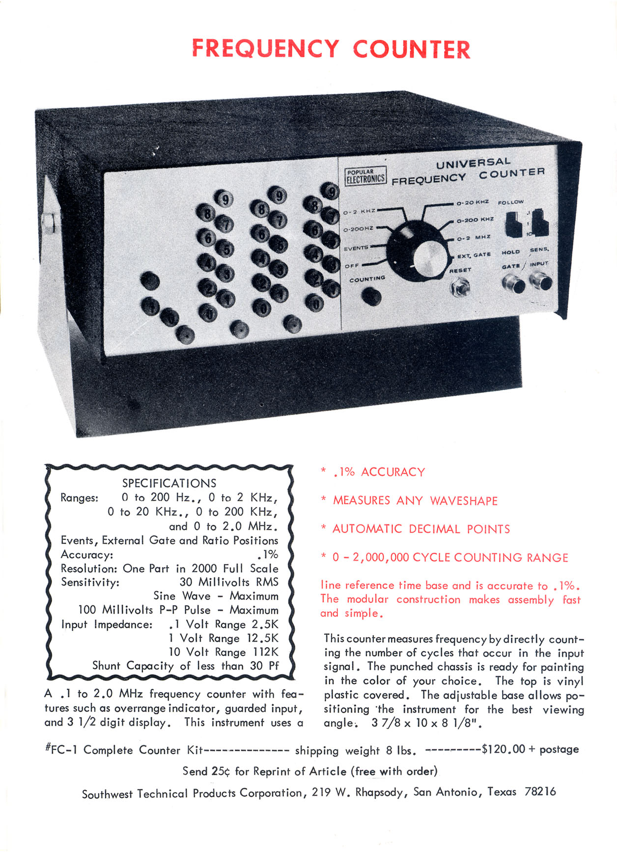 Southwest Technical Products Corporation catalog circa 1969. Founded by Daniel Meyer in 1964, SWTPC sold kits of parts for electronics projects published in magazines such as Popular Electronics and Radio-Electronics. In late 1975 they introduced the SWTPC 6800 Computer System based on the Motorola 6800 microprocessor. "Build Popular Electronics Universal Frequency Counter (Part 1)" By Don Lancaster published in Popular Electronics March 1969.